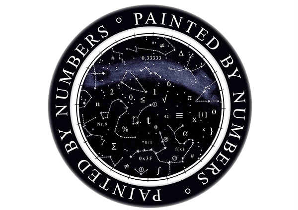 Project 'Painted by Numbers', visual